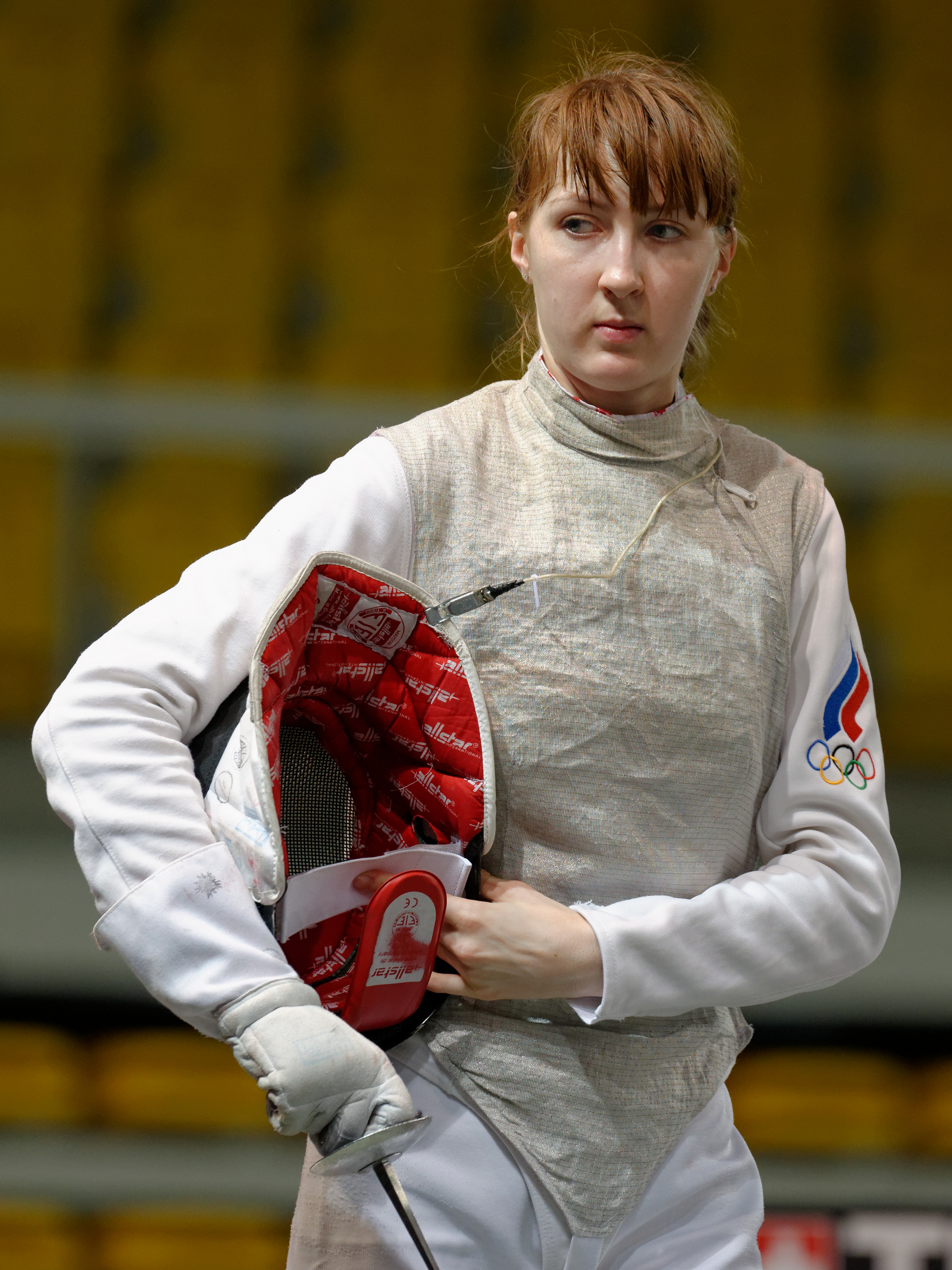 Larisa Korobeynikova of Russia at the women's team foil event at the European Fencing Championships at Rhénus Sport in Strasbourg on 14 June 2014.